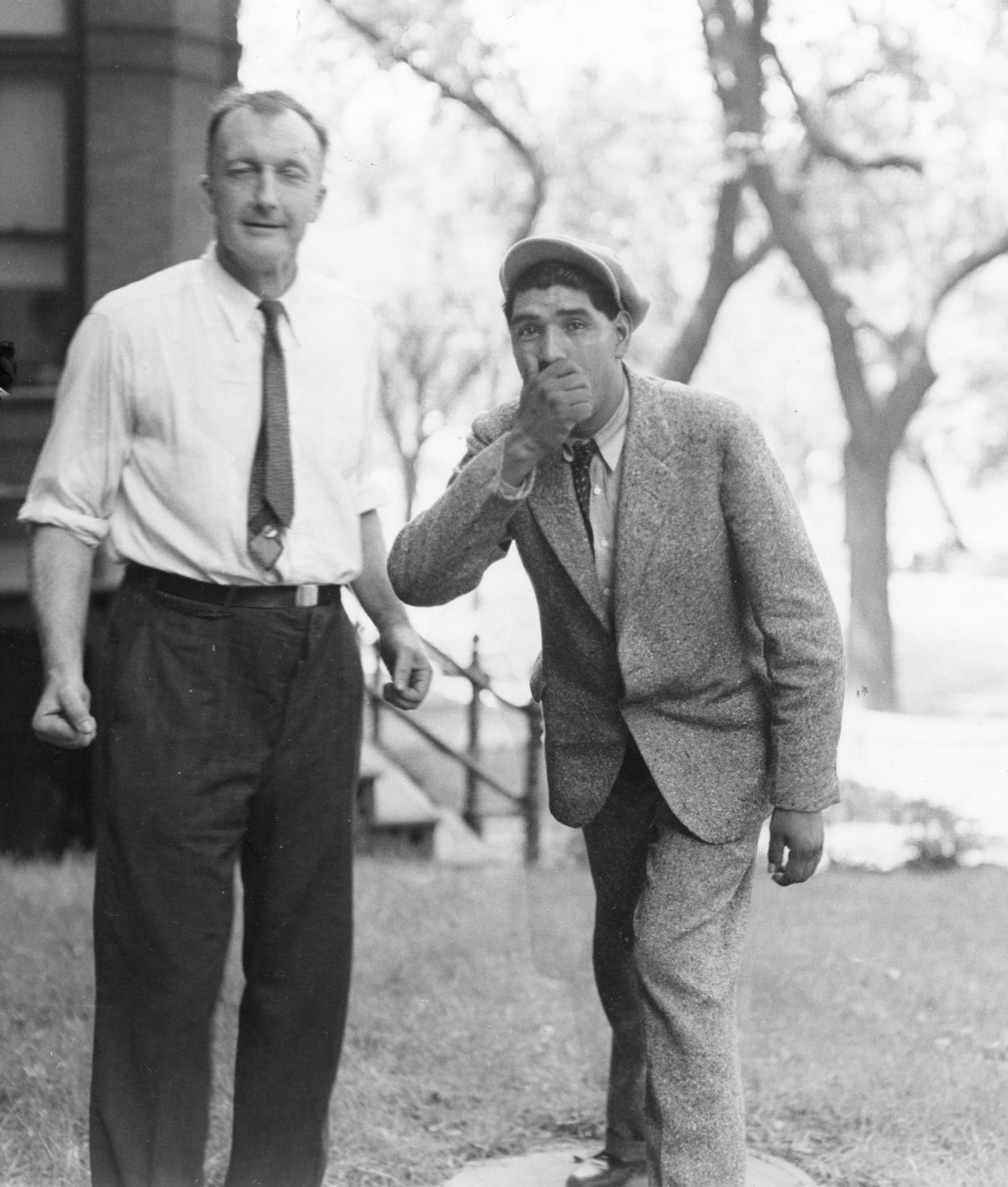 Subject: Harrington, John Peabody (1884-1961), with Chief Wiishi of Mission Indians, California. Type: Black-and-white photographs Date: 1935 07/12/1935 Topic: Indians of North America Ethnology Local number: SIA Acc. 90-105 [SIA2008-3356] Summary: John Peabody Harrington (1884-1961) was an American linguist and ethnologist and a specialist in the native peoples of California. Here Chief Wi'ishi is showing techniques of psychic duels Cite as: Acc. 90-105 - Science Service, Records, 1920s-1970s, Smithsonian Institution Archives Place: California Persistent URL: Repository:Smithsonian Institution Archives View more collections from the Smithsonian Institution.